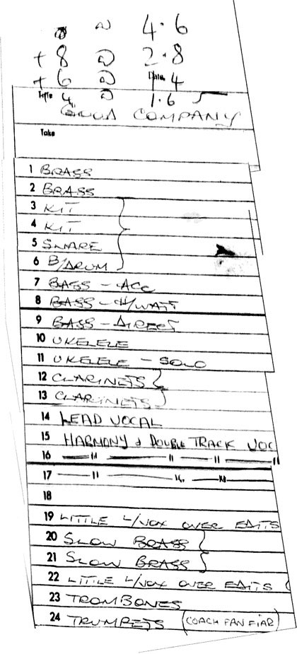 Queen's Good Company tape headline from 1975. This file is ineligible for copyright and therefore in the public domain because it consists entirely of information that is common property and contains no original authorship.